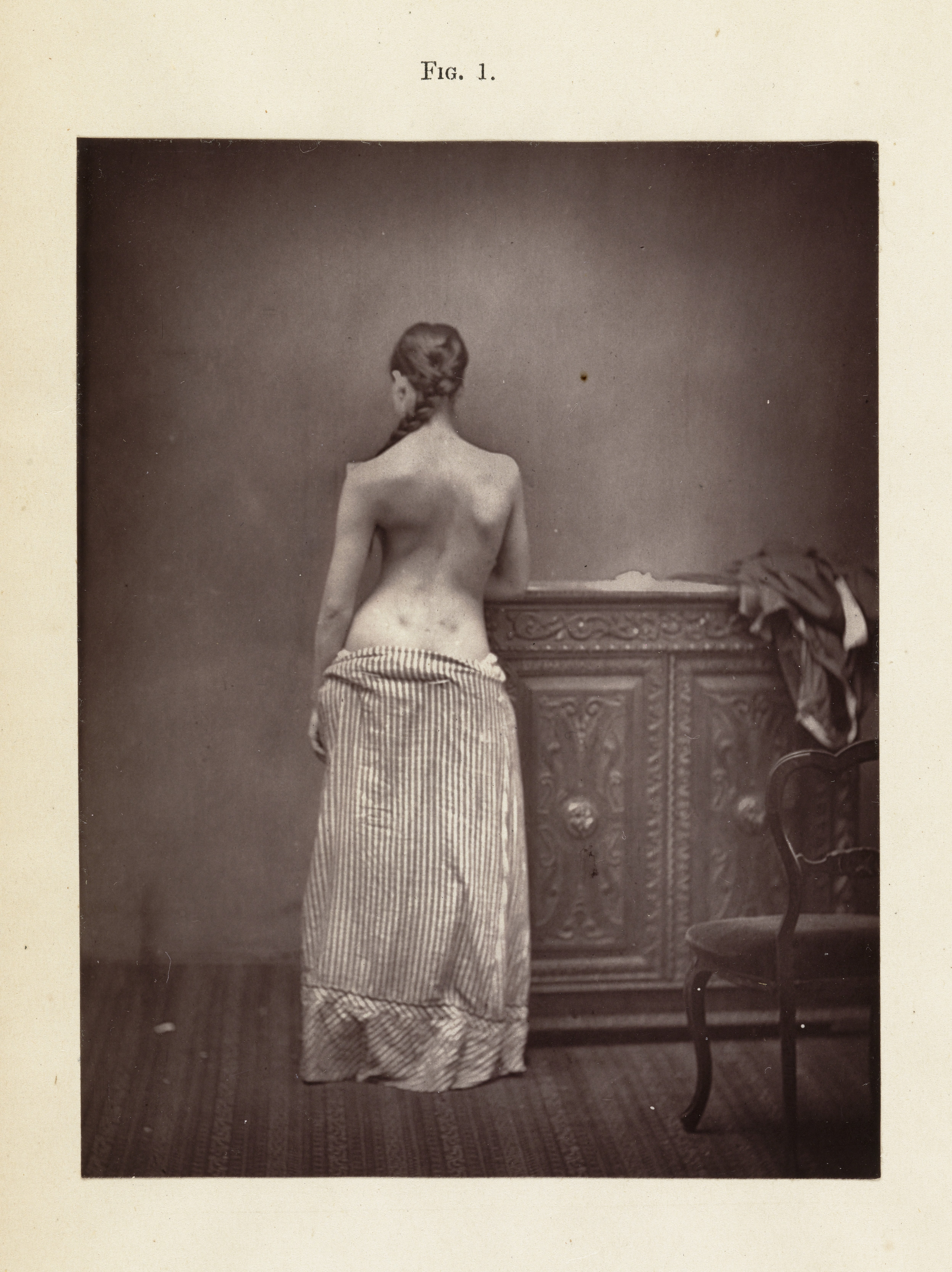 Photograph showing a female with spinal curvature. Wellcome Images Keywords: Spine; Spinal Diseases